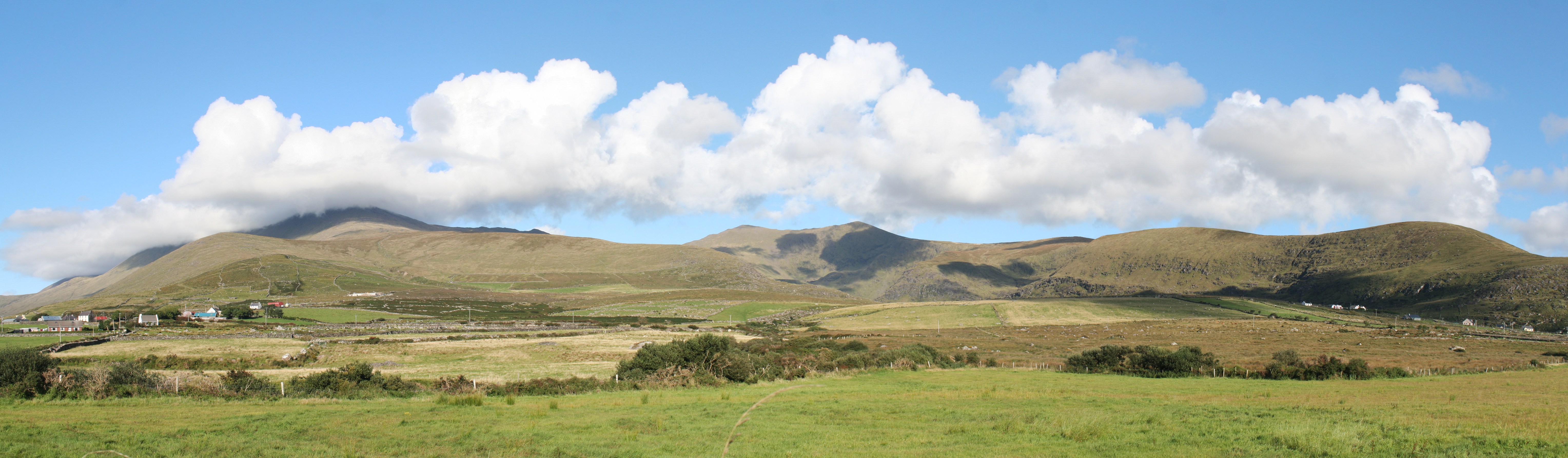 Mt. Brandon / Dingle Peninsula / County Kerry / Ireland